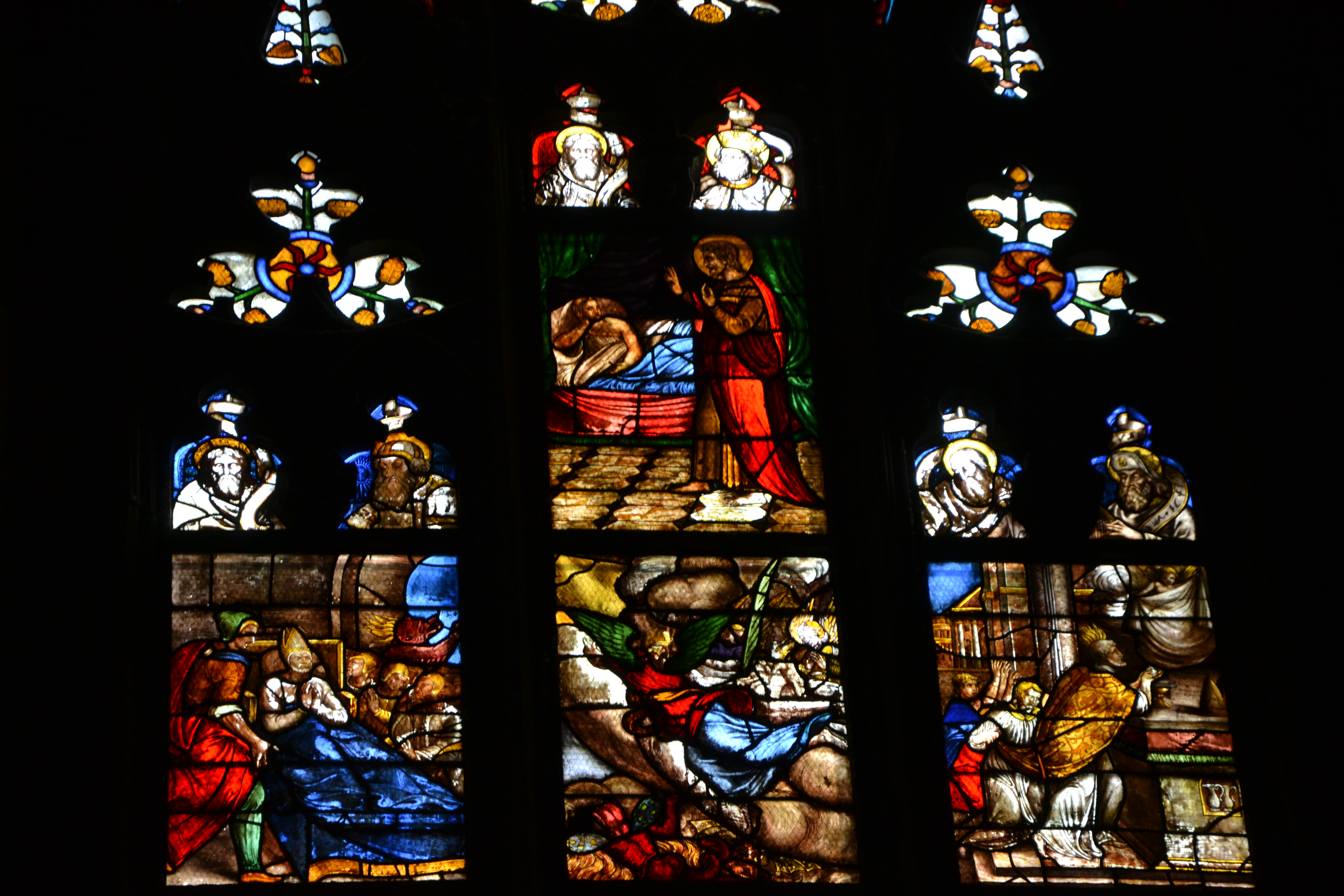 Duomo di Milano - Stained-glass windows